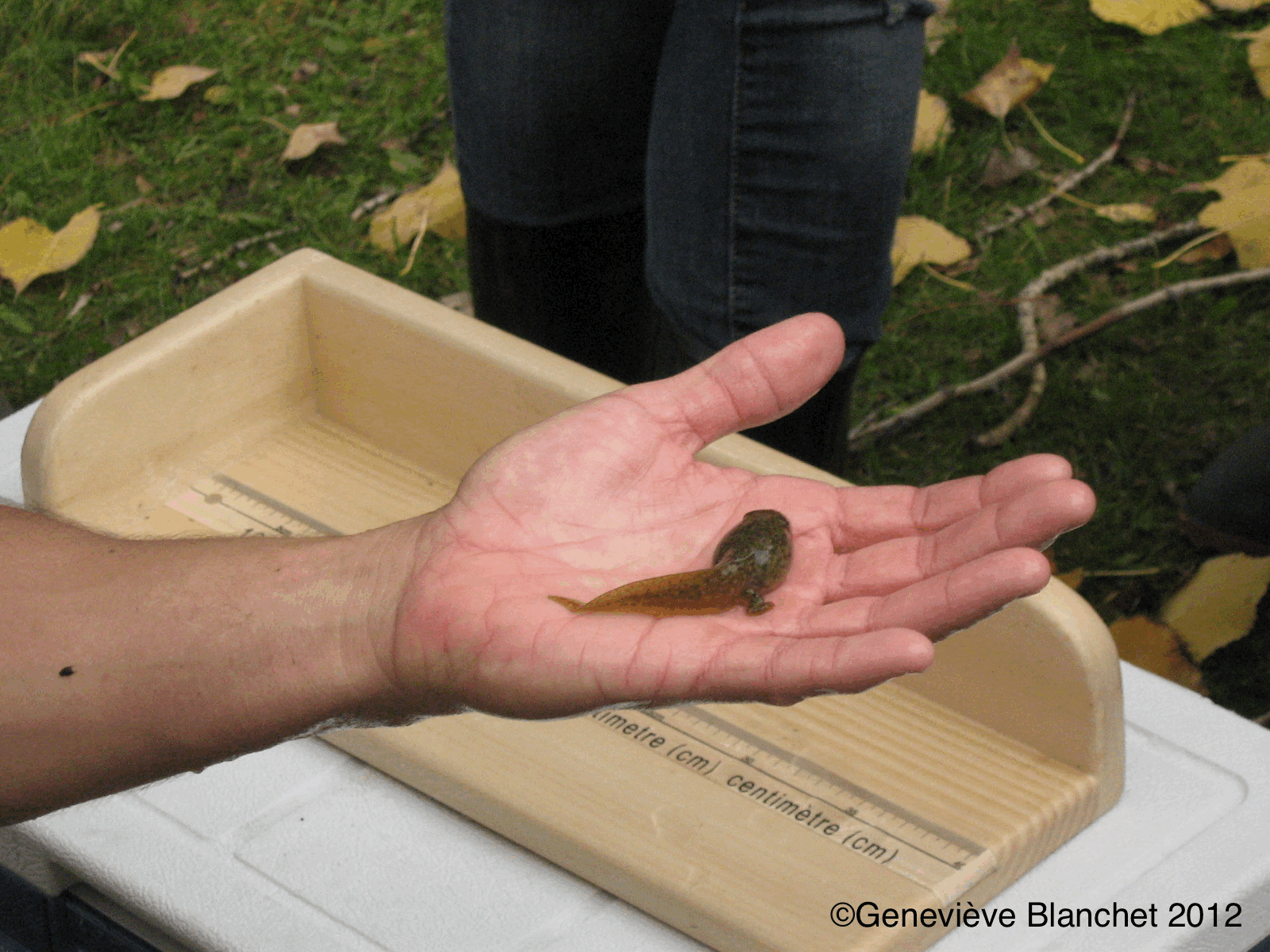 Têtard en début de métamorphose. L'hormone thyroïdienne provoque la résorption de la queue et l'apparition des pattes postérieures puis antérieures.